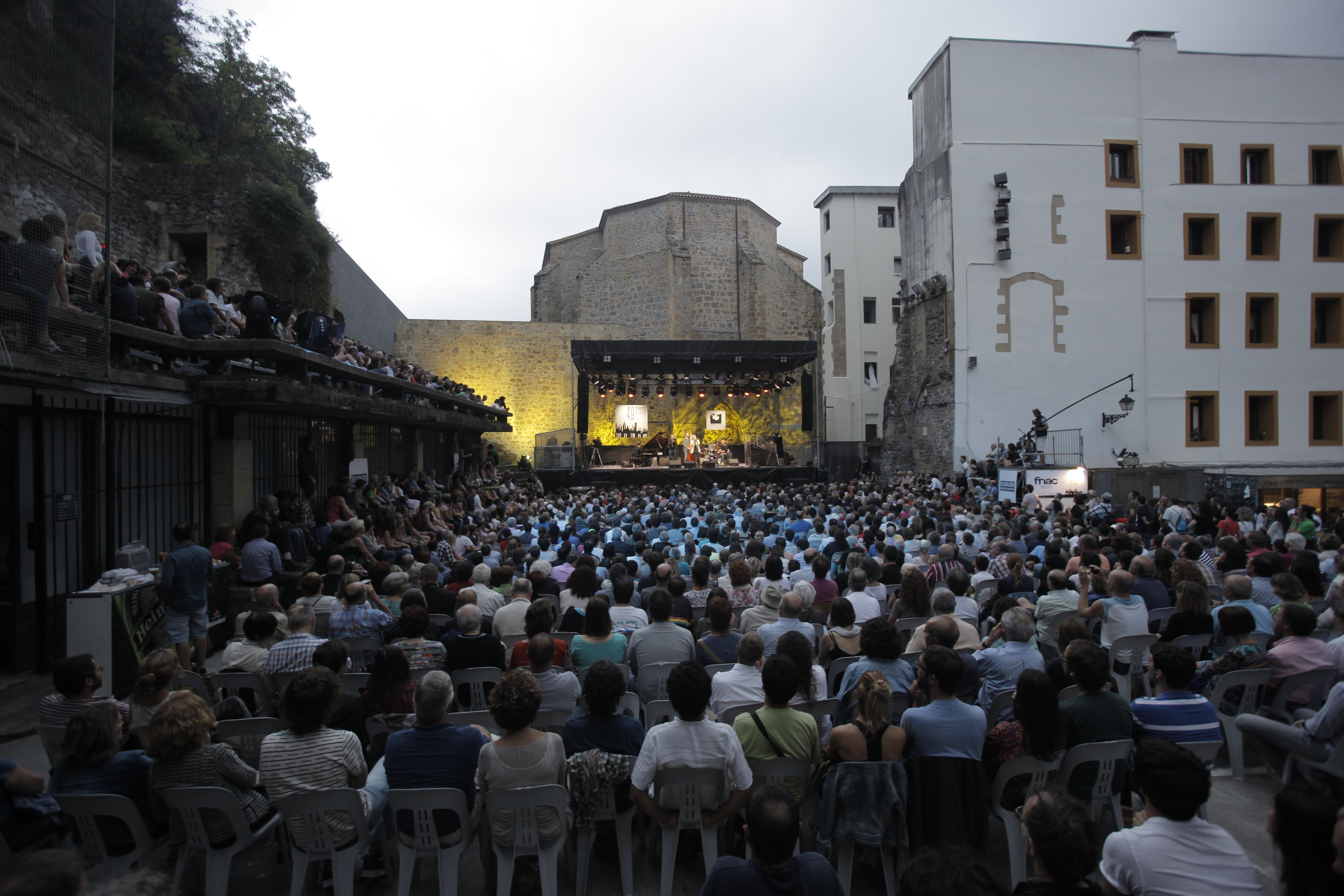 The Plaza de la Trinidad Stage at San Sebastian Jazz Festival.